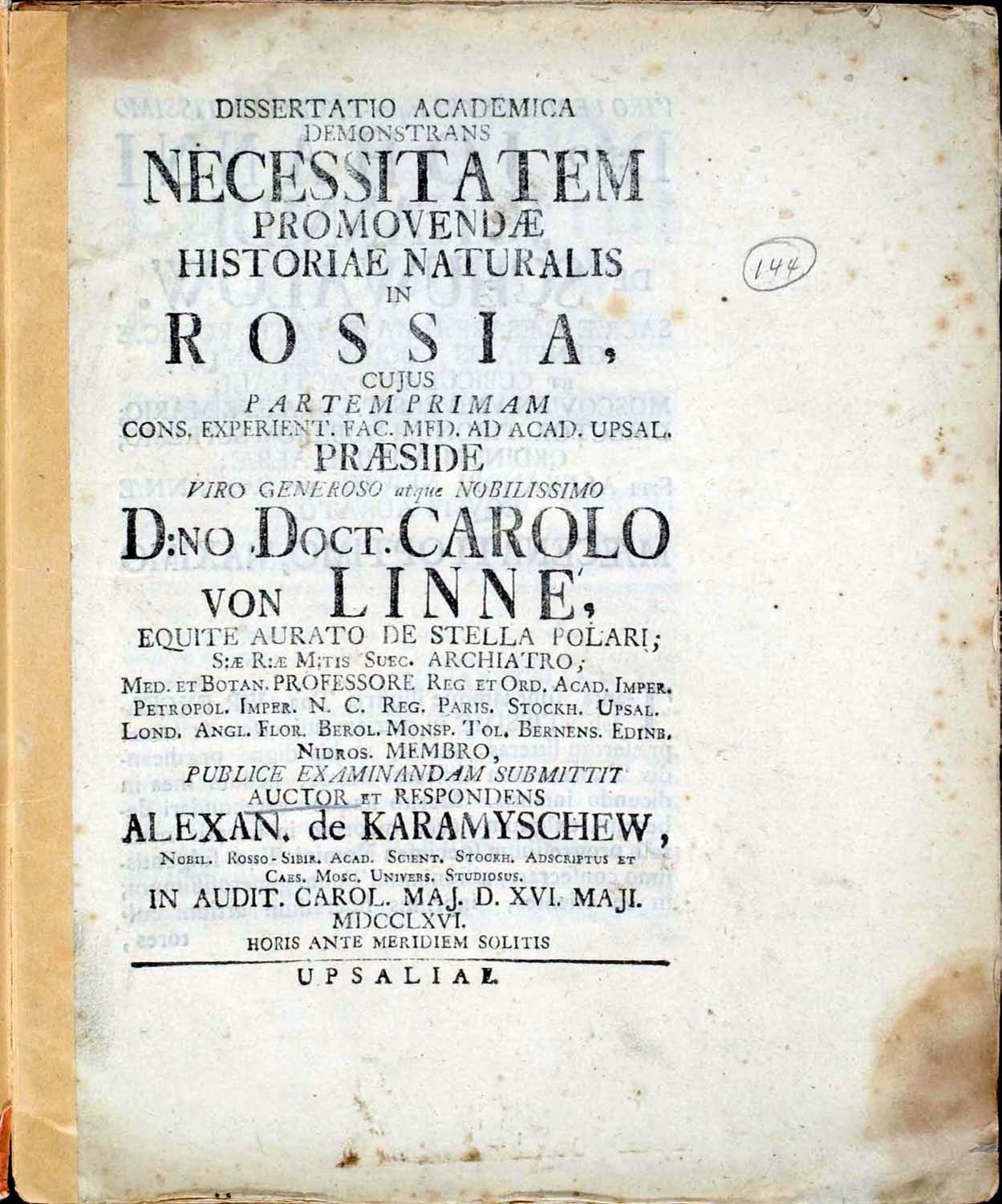 Title page of Alexander Karamyshev's dissertation Necessitas Promovendae Historia Naturalis In Rossia at volume 7 Amoenitates Academicae. 1769